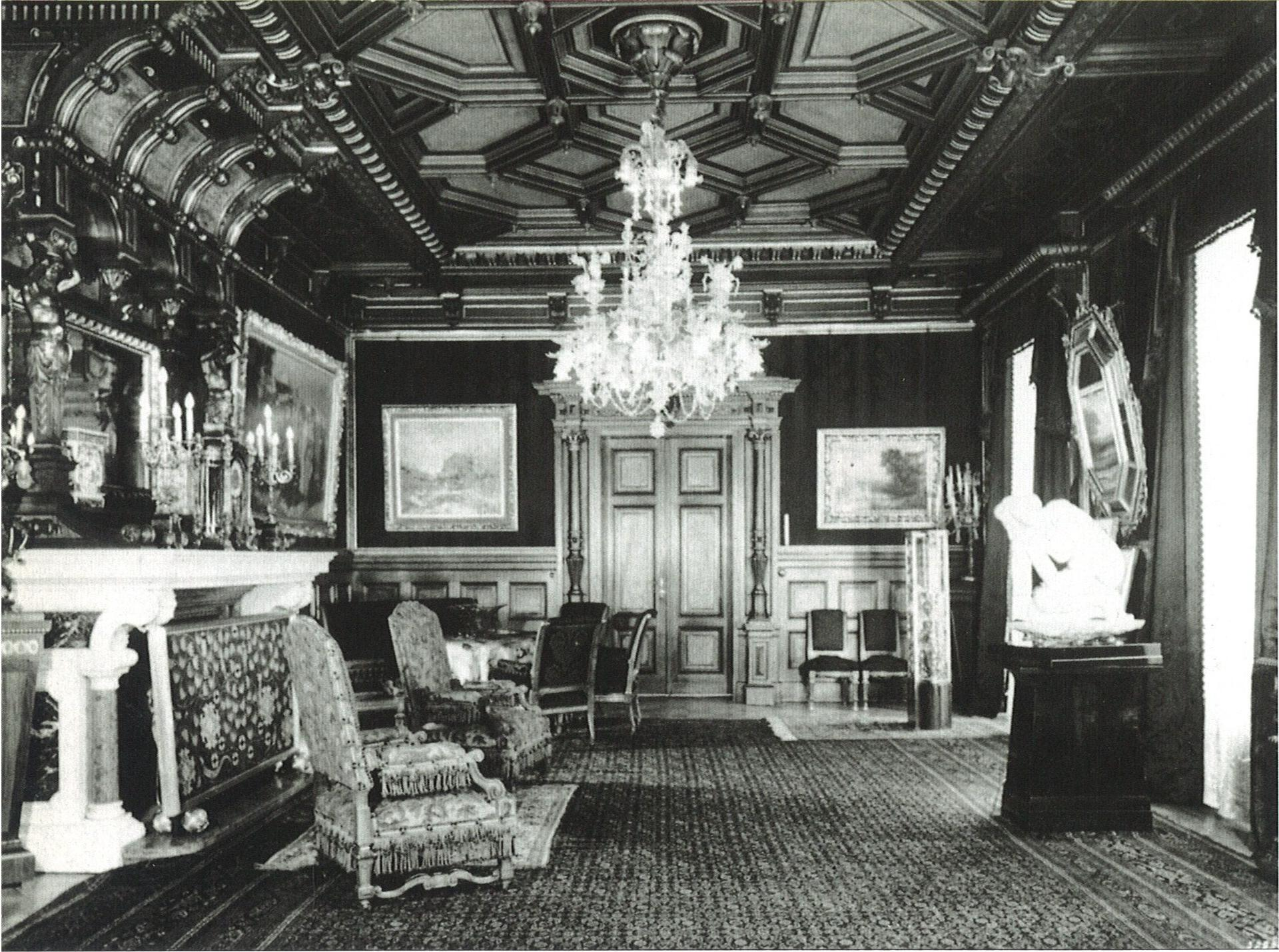 The Rote Salon of the Palais Wittgenstein in the Alleegasse, today Argentinierstraße, Wien IV. To the right a Jugendstil glass cabinet and the sculpture Kauernde by Max Klinger.